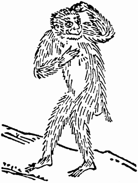 Yamako (山玃) from the Wakan Sansai Zue (和漢三才図会)